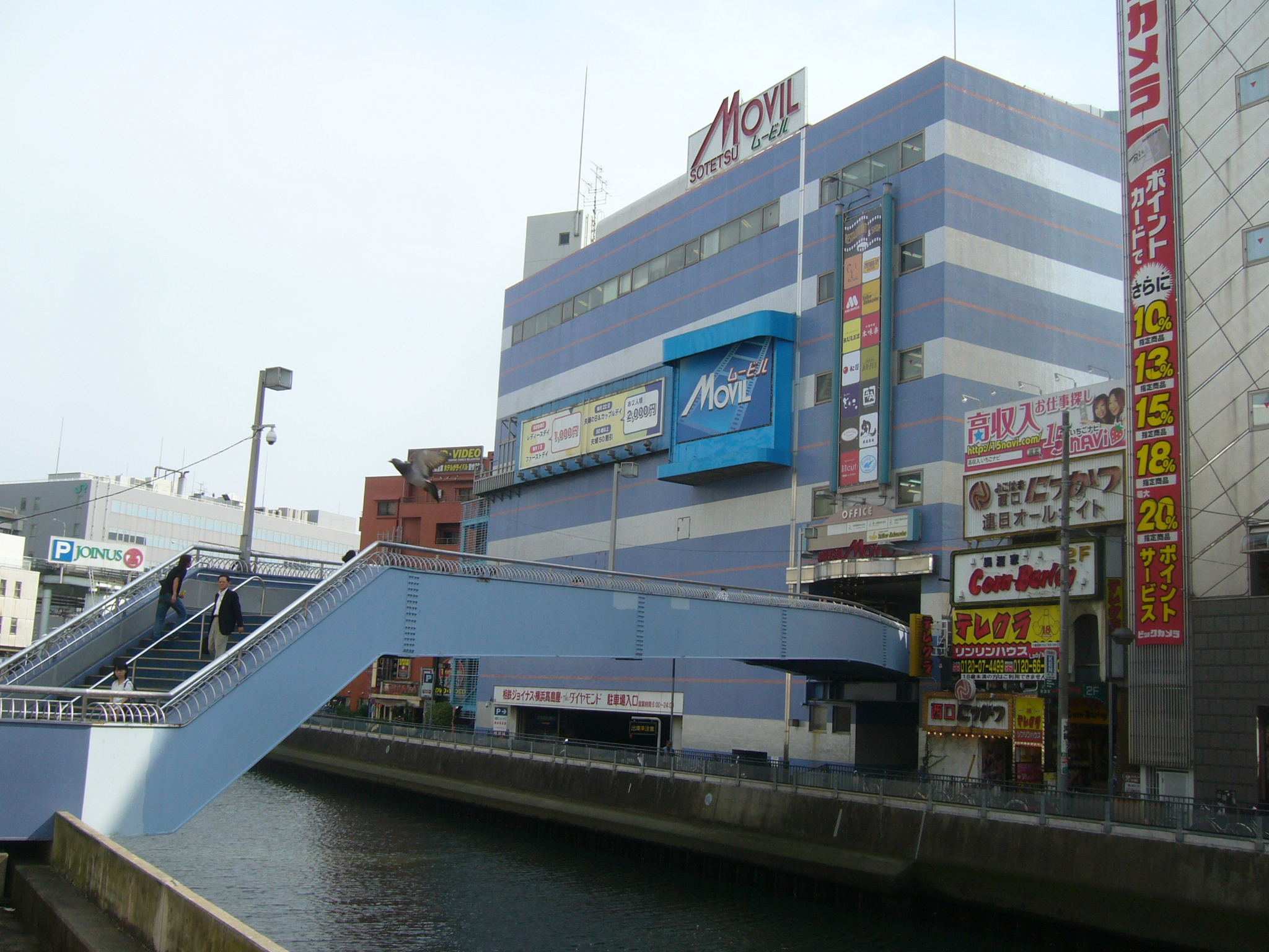 Movie Theater "Sotetsu Movil" in Yokohama, Japan.